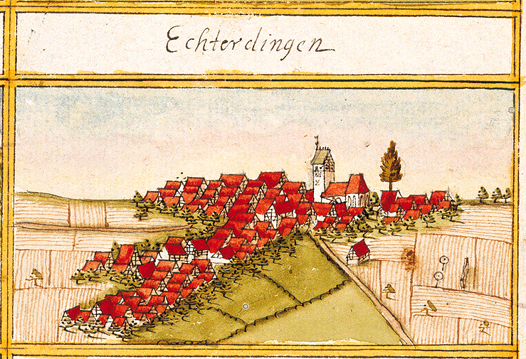 View of Echterdingen, Leinfelden-Echterdingen, from the forest register books created by Andreas Kieser